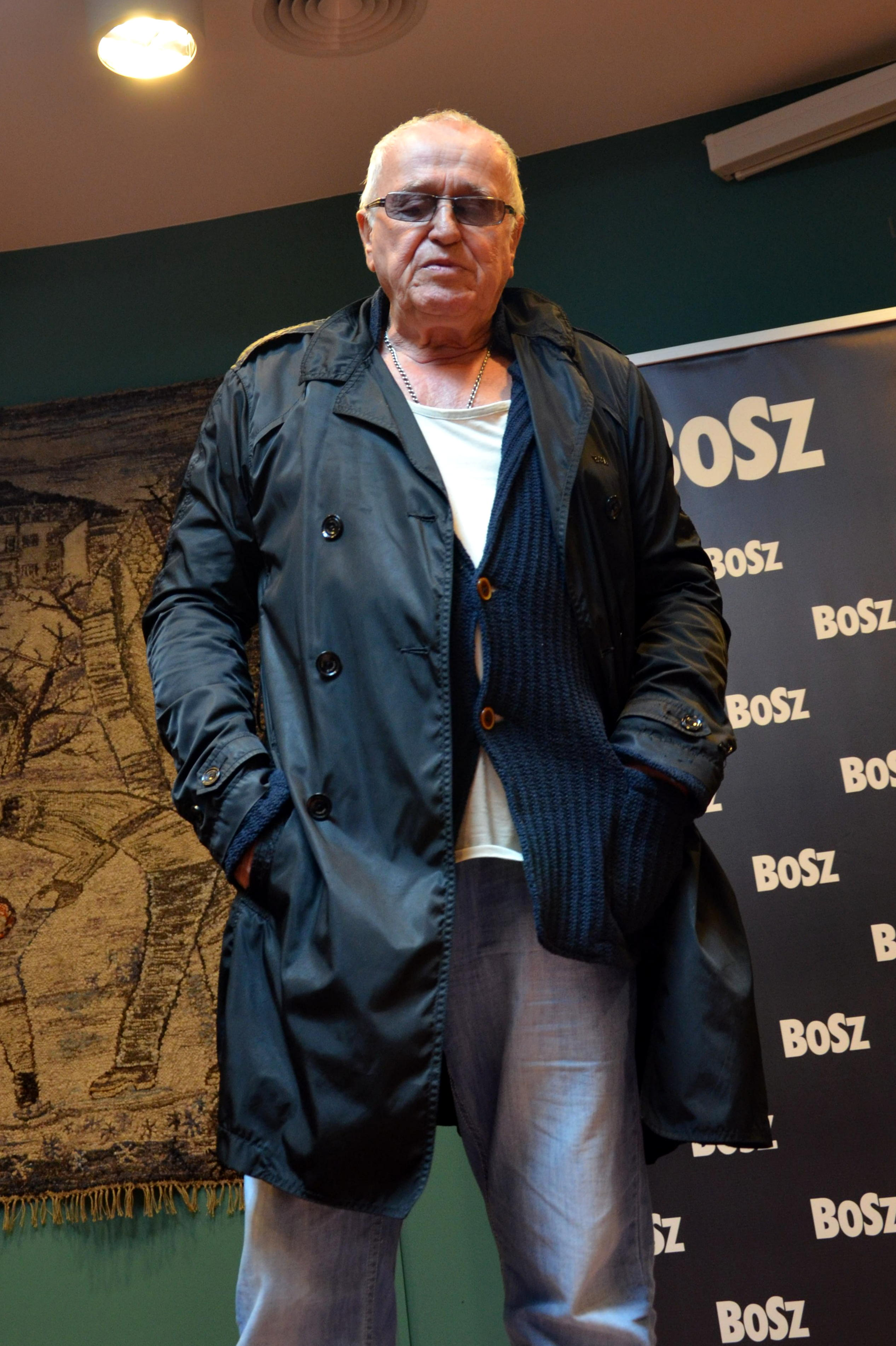 Jan Nowicki "als Janusz Głowacki"